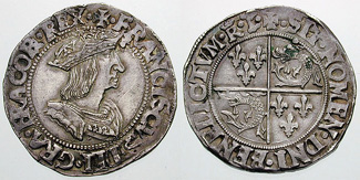 France. Francis I of France. 1515-1547. AR Teston du Dauphiné (9.32 gm). Romans mint. 1528-1540. + .FRANCISCVS. (dot under R) DEI. GRA. FRACORx. REX., crowned bust right + .SIT. (dot under I) NOMEN. DNI. BENEDICTVM. crowned R. PL. (ligate), arms of Dauphin. Duplessy 823A var. (no F); Ciani -; Lafaurie -.